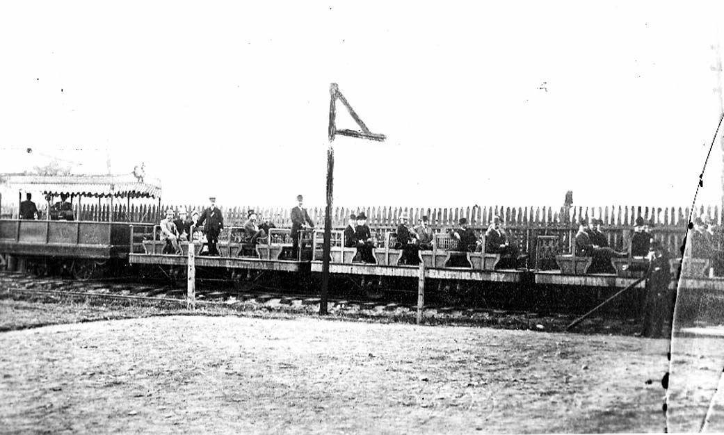 View of electric railway (consisting of locomotive and three open flat cars with bench seats) set up by Messrs. J.J. Wright, of the Toronto Electric Light Co., and Charles Van dePasle, a Belgian-American street railway promoter, across the north property line of the Industrial Exhibition 1884-1891, connected with the Toronto Street Railways horse car system at Strachan Avenue.